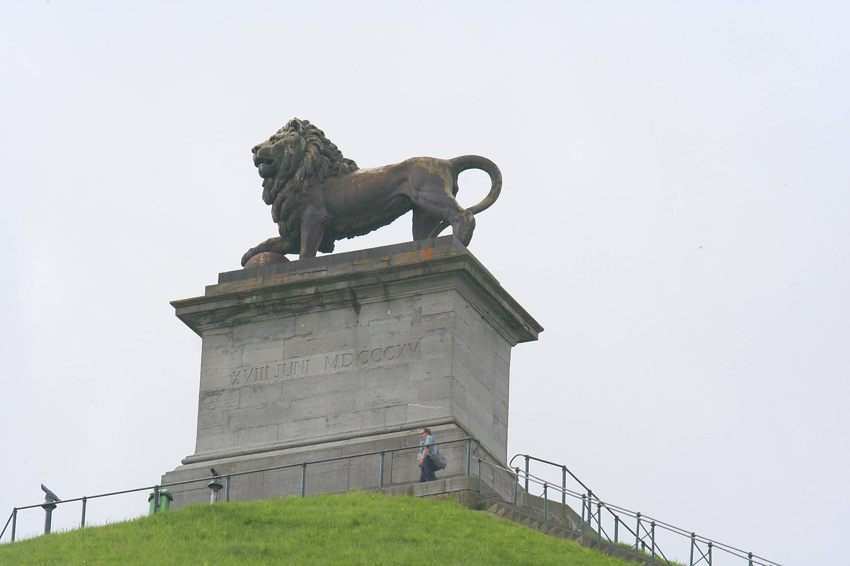 "Lion of Waterloo" - in remember of the Battle of Waterloo in Waterloo